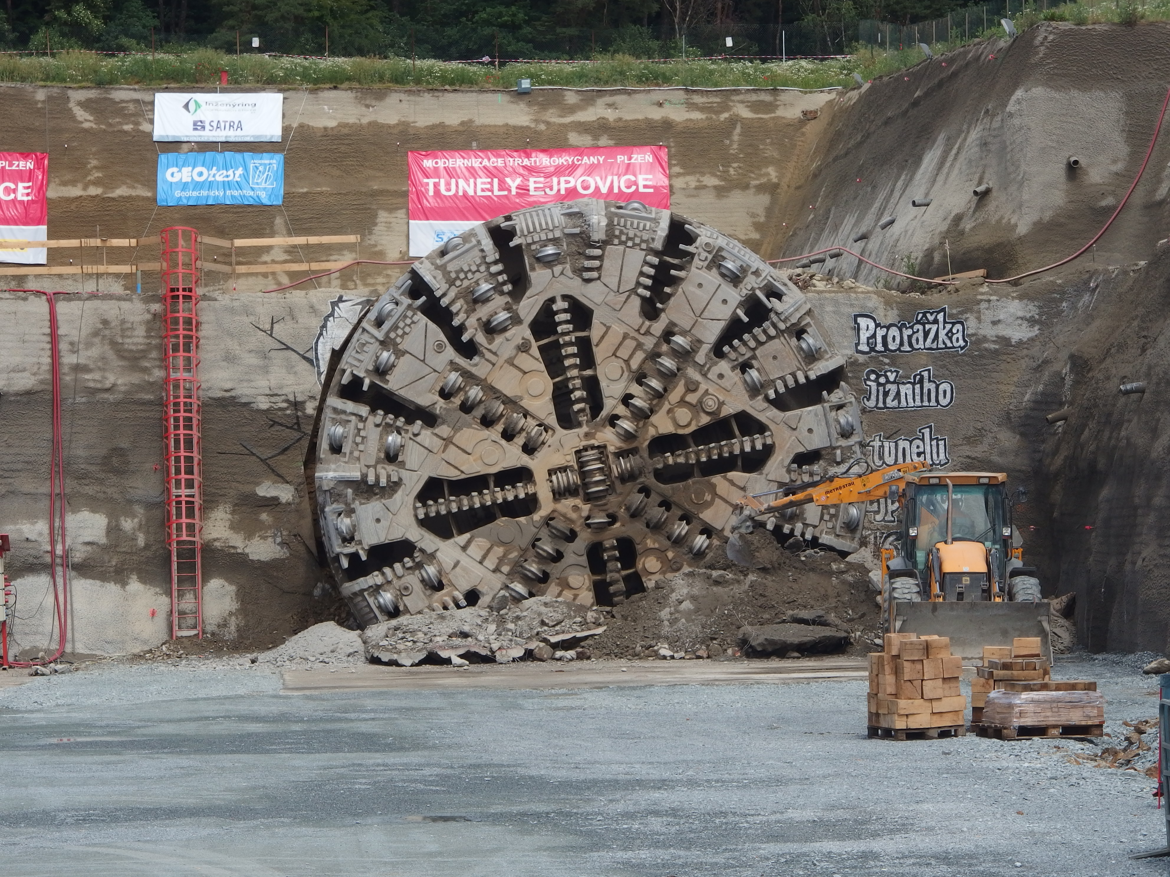 TBM after finishing the southern branch of the railway tunnel Ejpovice - Plzeň.